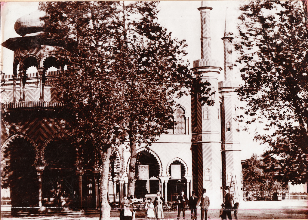 The amusement park Alhambra in Frederiksberg